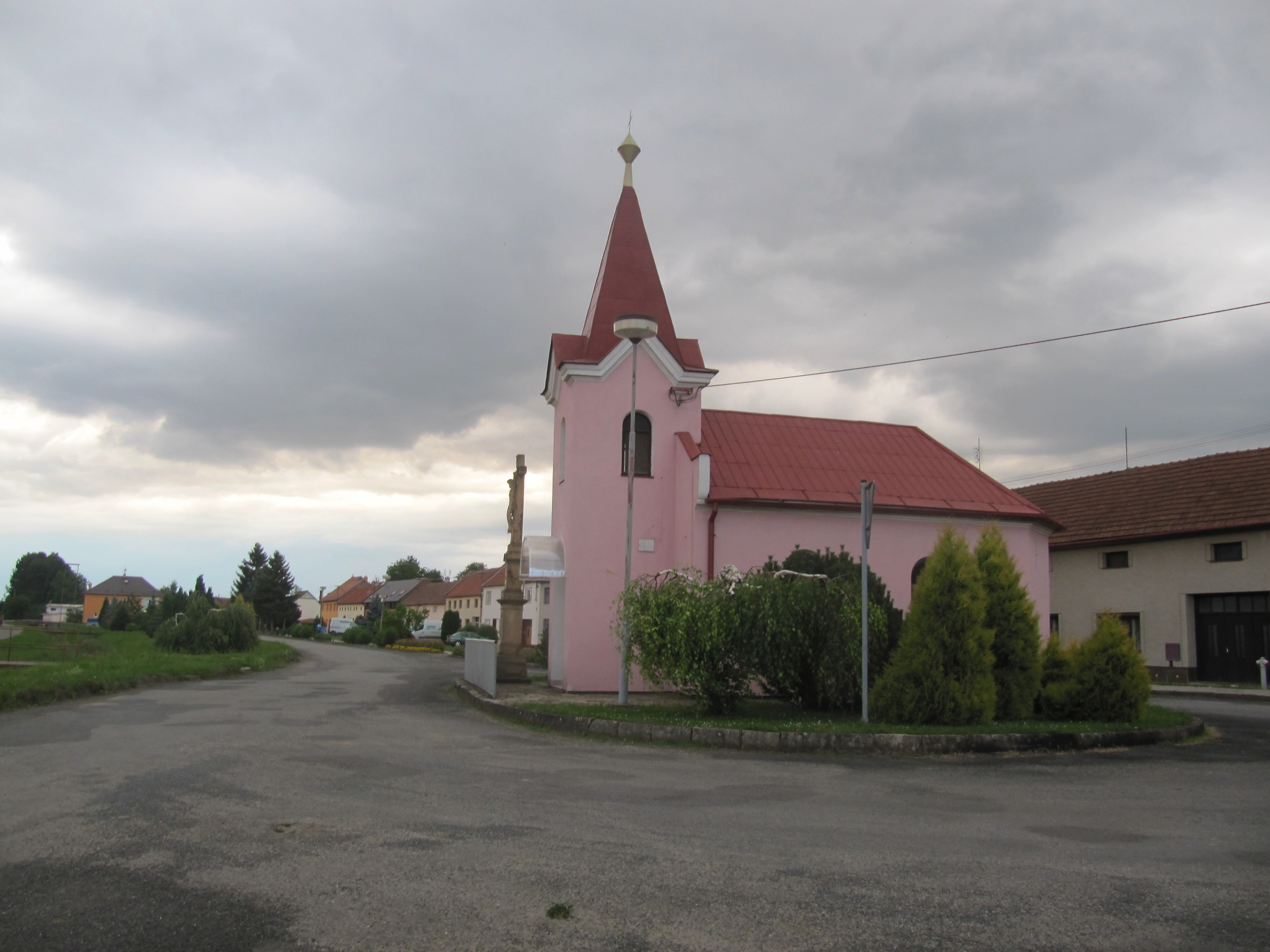 Pačlavice, Kroměříž District, Czech Republic, part Lhota.